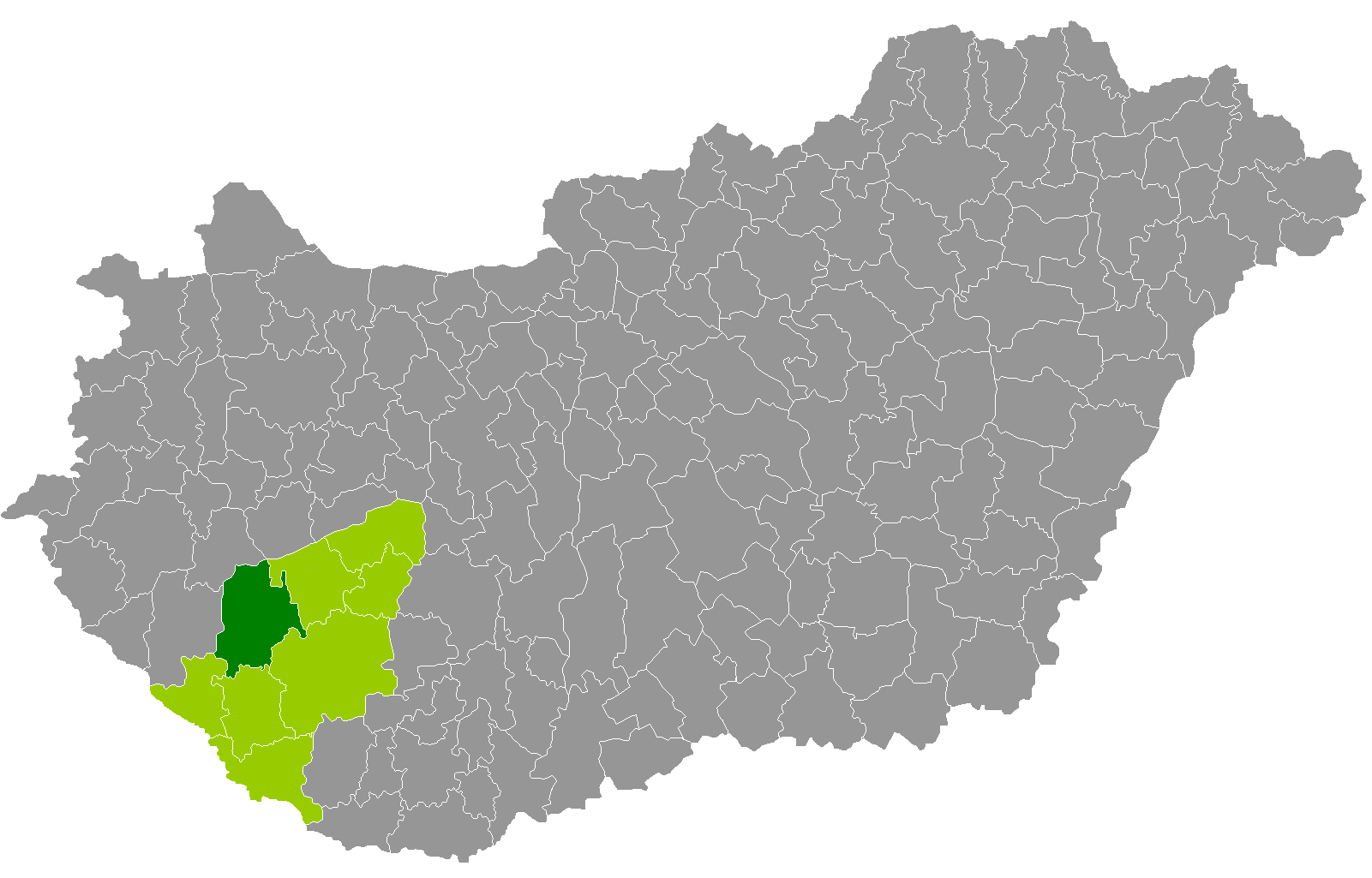 Location of Marcali District, Somogy, Hungary